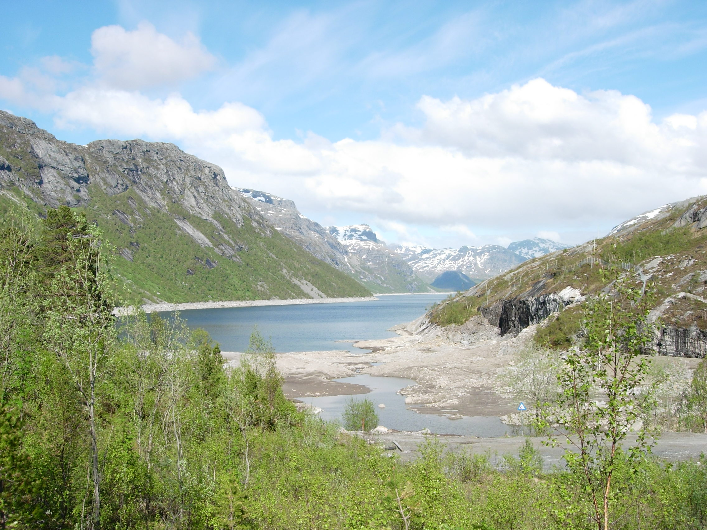 Heggmovatnet in Bodø, Norway with a low Reservoir